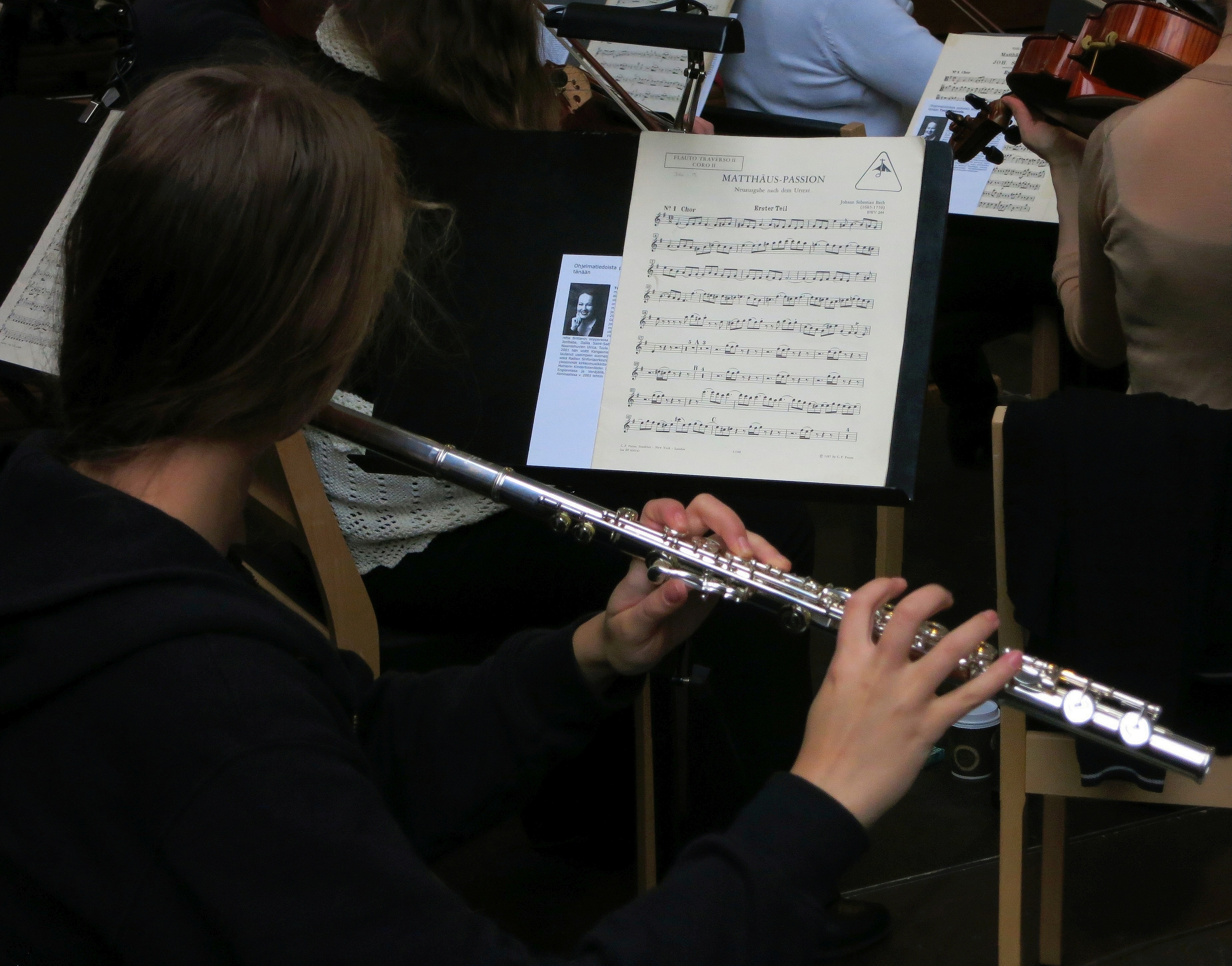 Flautist in orchestra